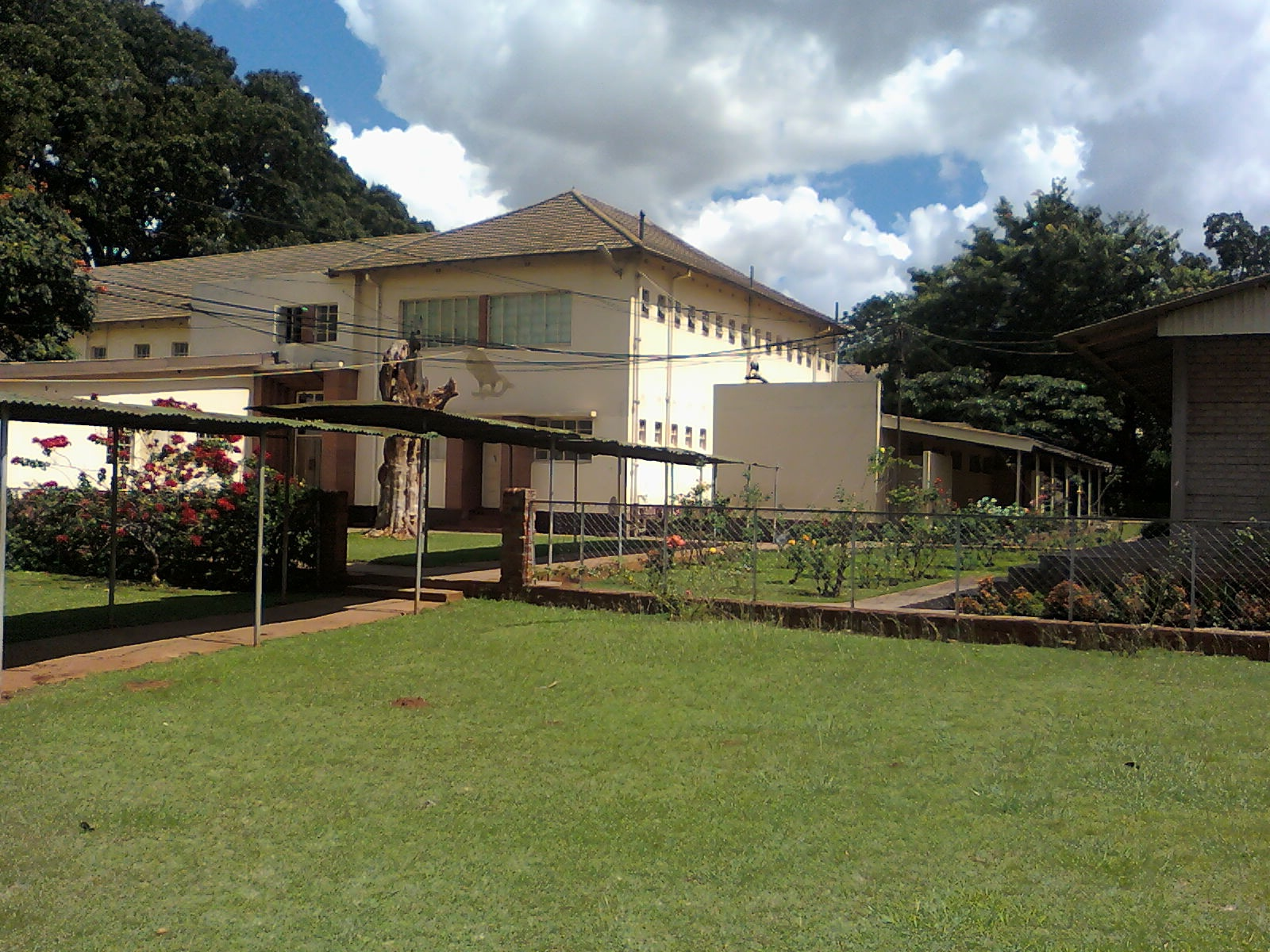 The Beit hall is where most occasions take place, such as prizegivings, honors assemblies, Monday morning assemblies and other such events